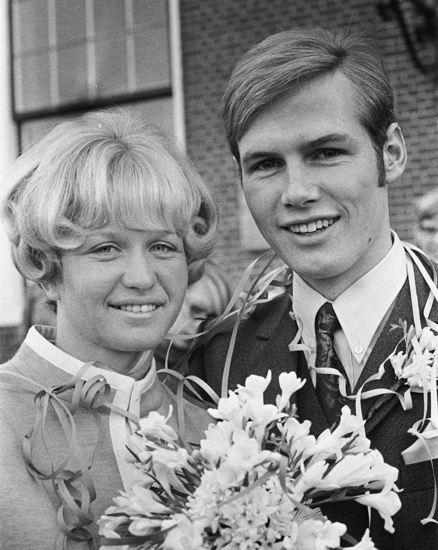 Retired swimmer Nel Bos is getting married to R. Plu on 20 December 1969